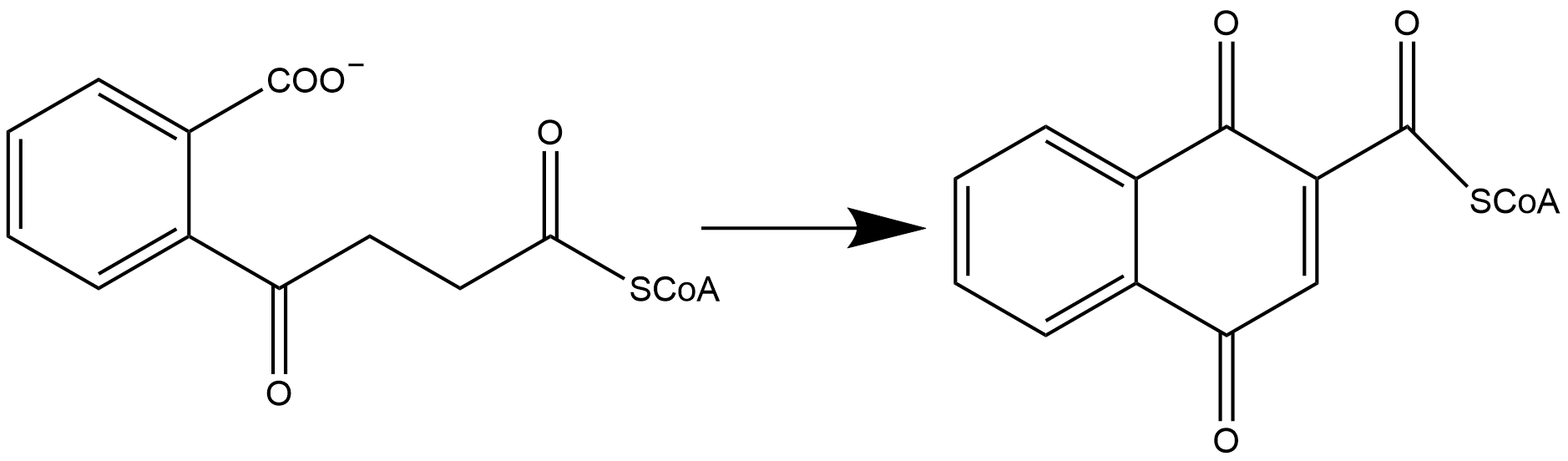 This is the updated reaction that MenB catalyzes